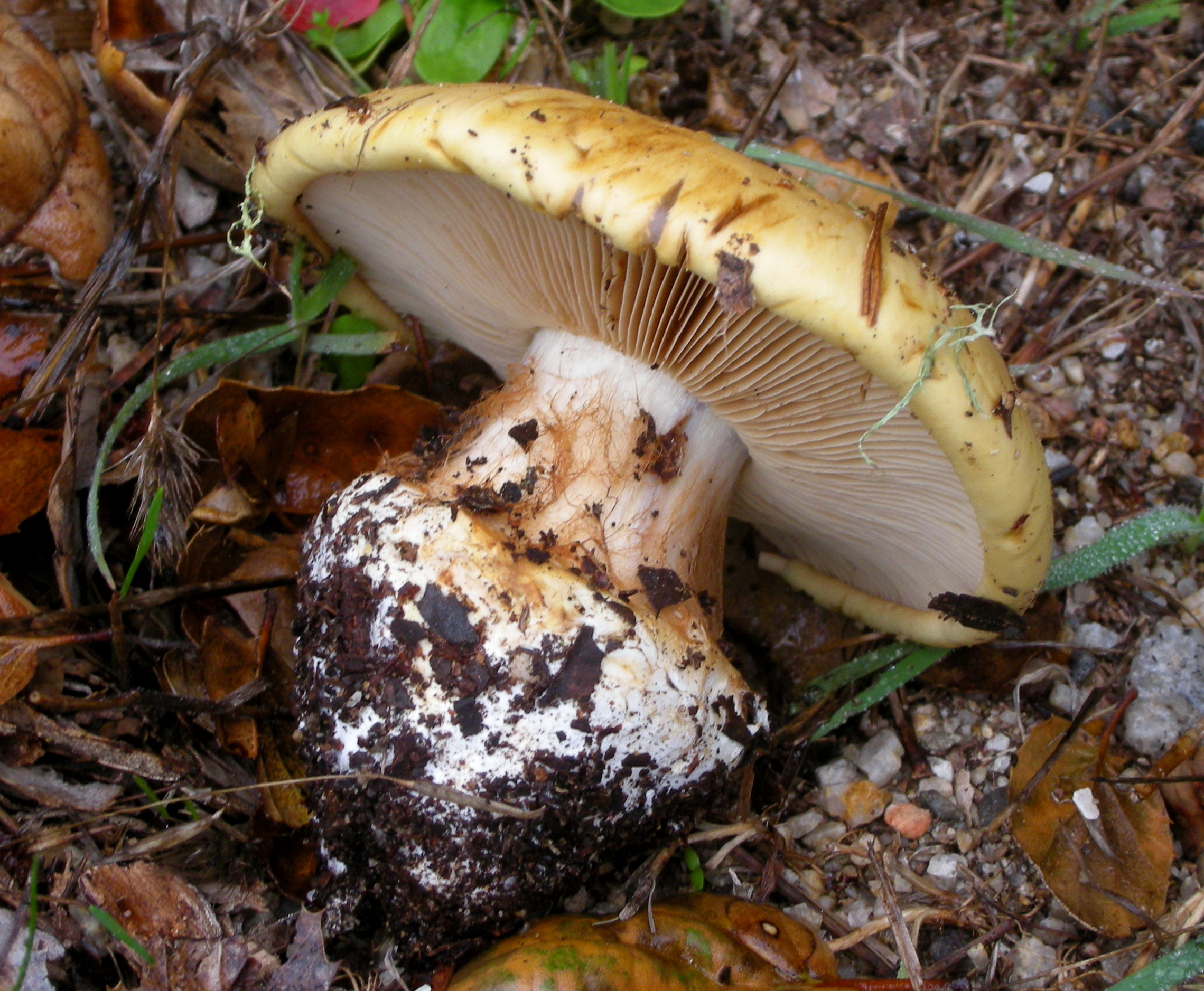 A fruit body of the fungus Cortinarius xanthodryophilus Bojantchev & Davis. Photographed in Tomales Bay State Park, Marin Co., California, USA.